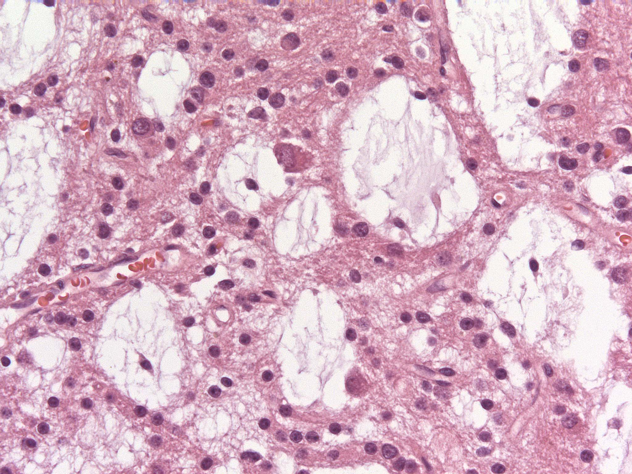 Dyembryoplastic Neuroepithelial tumour (DNET)